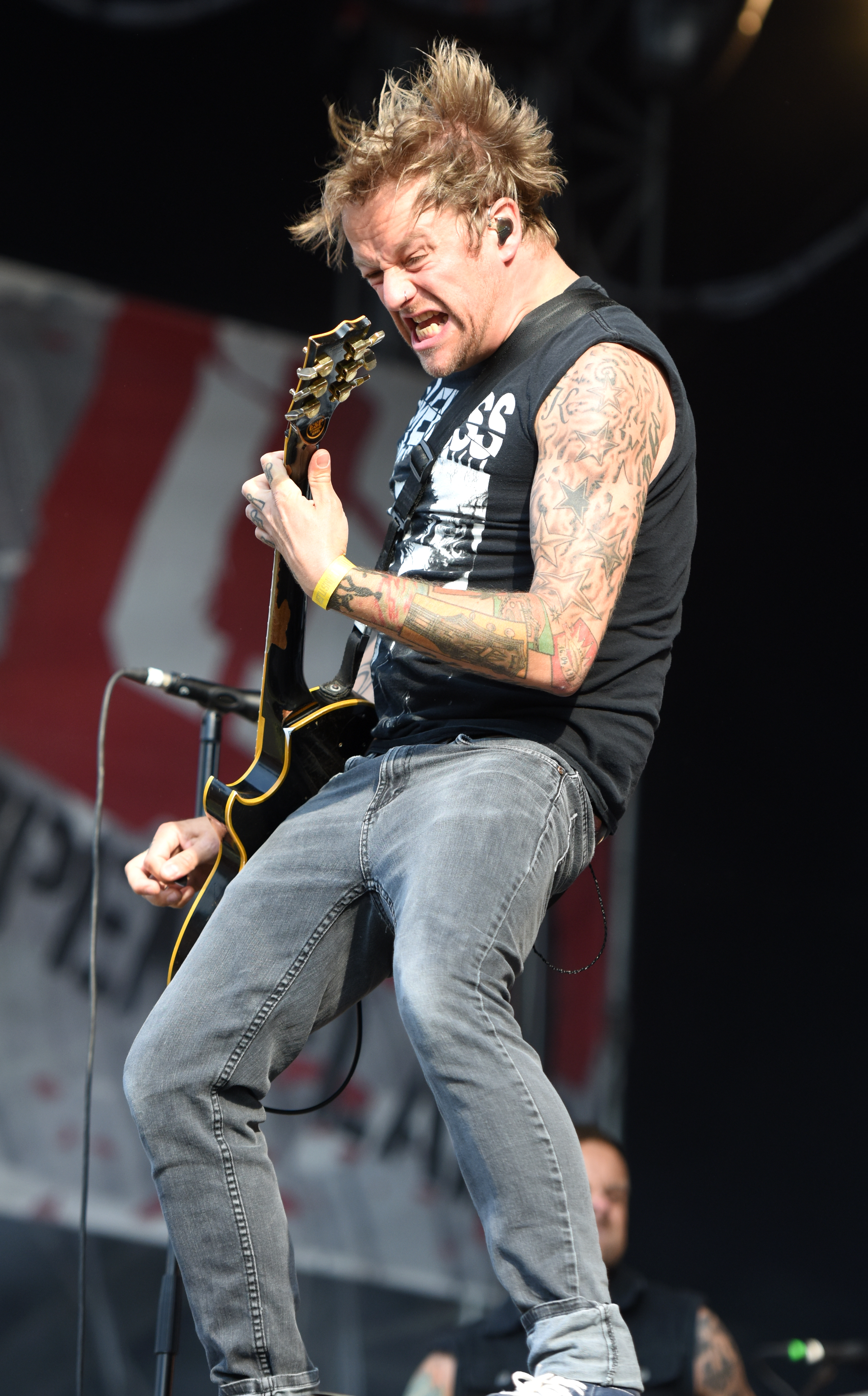 Donots at the Open Flair festival 2015 in Eschwege, Germany.